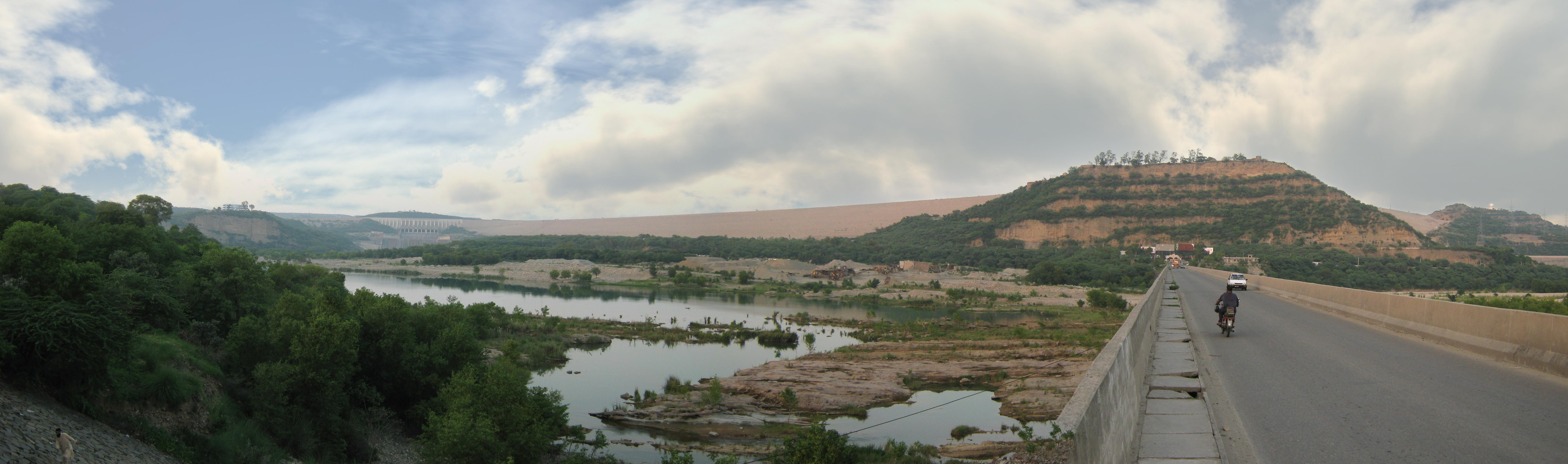 Mangla Dam and Mangla Bridge, Pakistan.